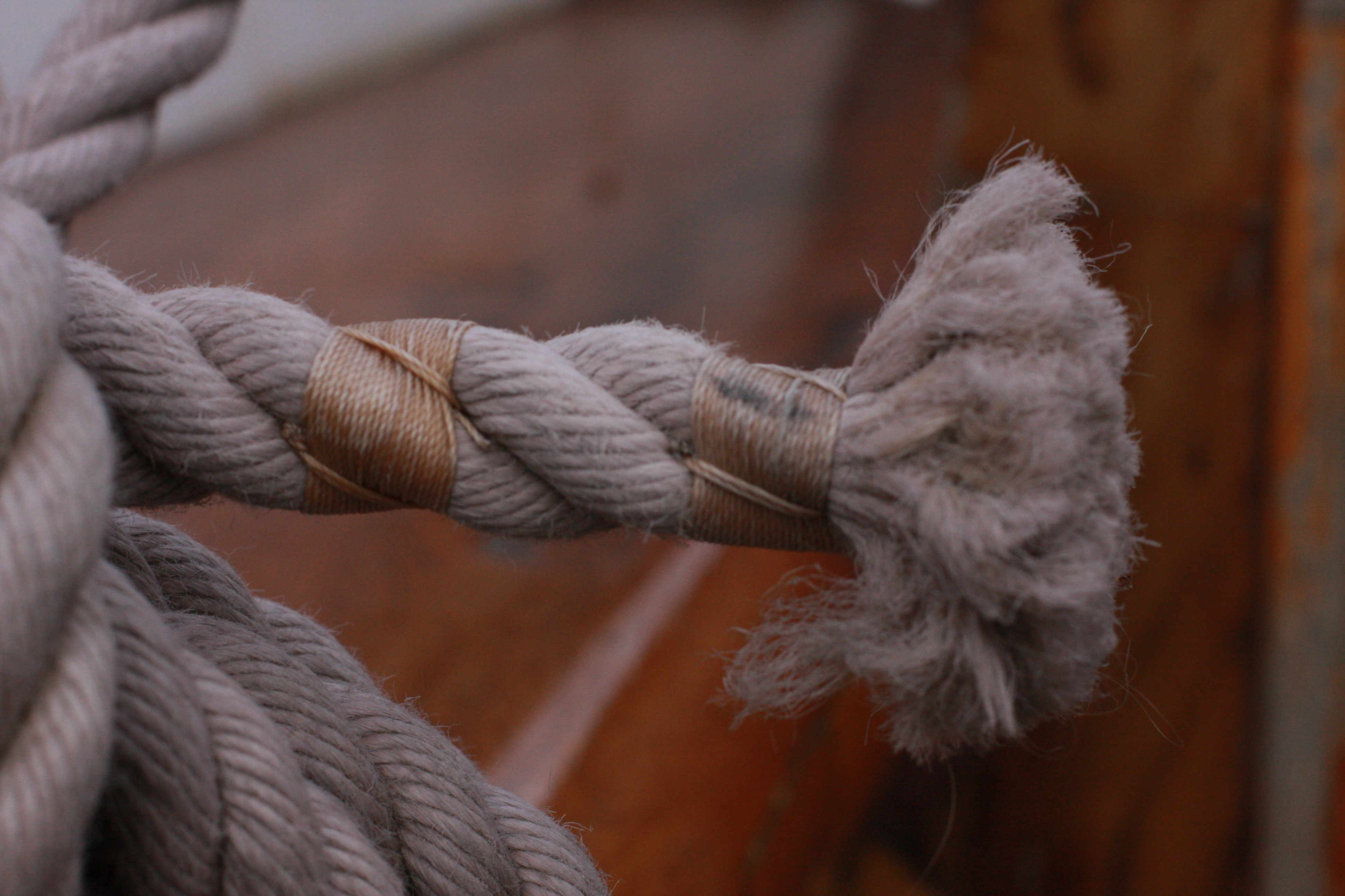 a rope fixed against fraying on Cutty Sark, London